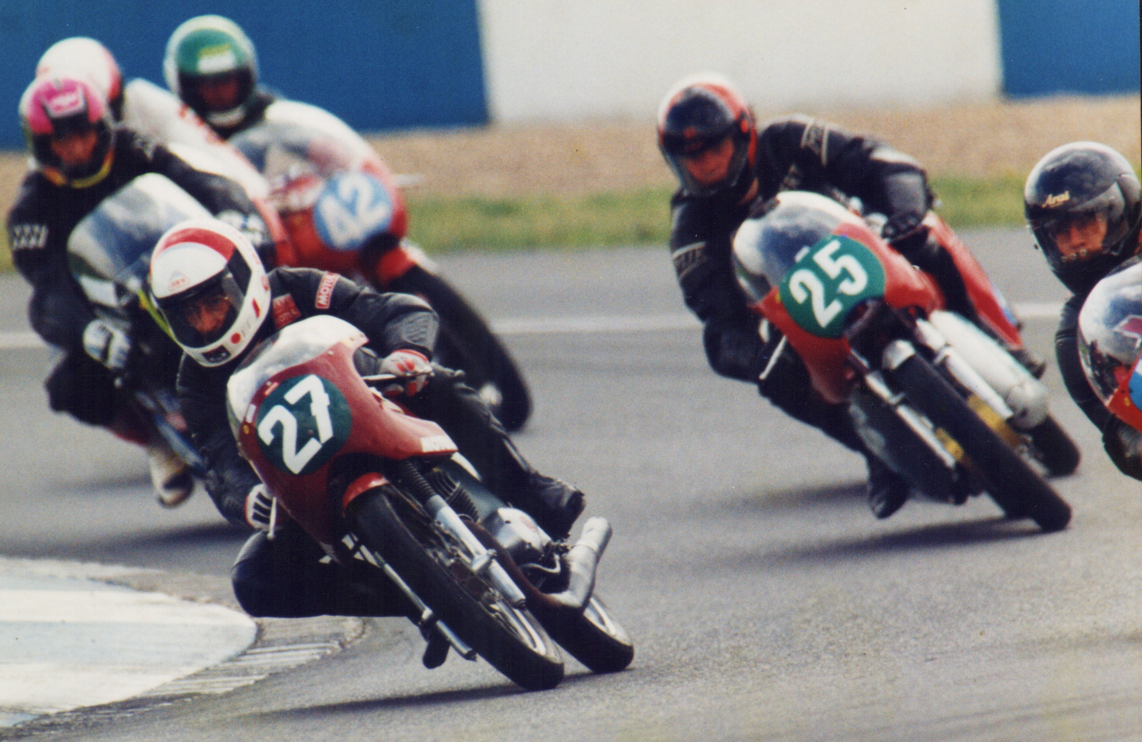 Jordi Fornas on his Montesa Impala 250 Blitz, leading the holeshot at Donington Park (1996)